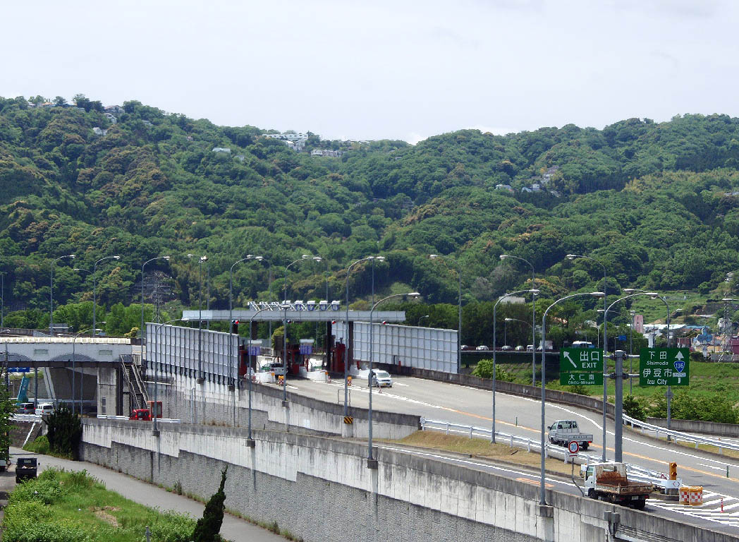 Shuzenji Road's Ohito South IC in Shizuoka Prefecture, Japan.